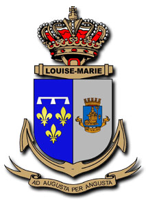 Coat of arms of the Karel Doorman-class frigate "F931 Lousie Marie" of the Belgian Naval component.